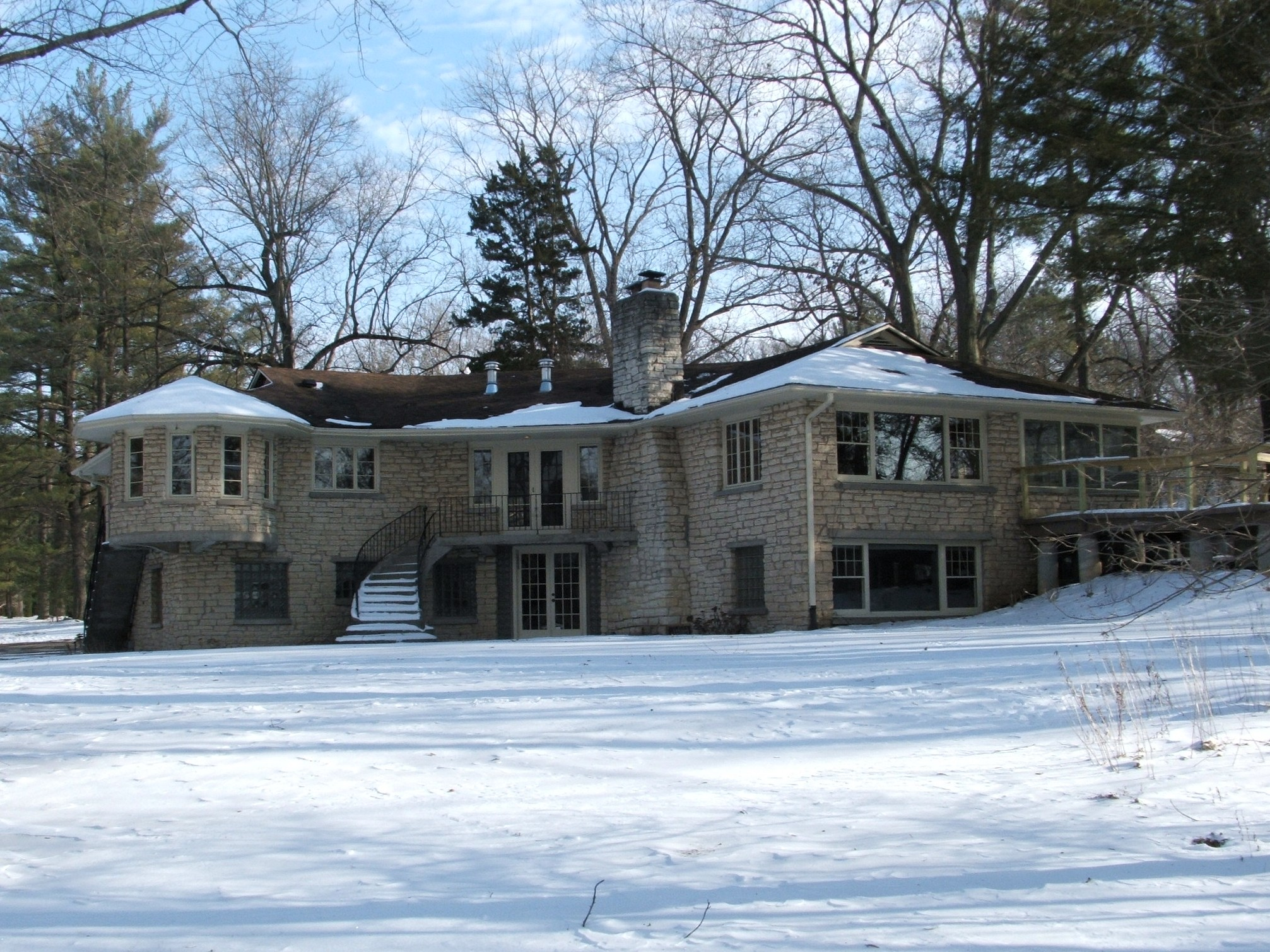 Ned Ashton House in January, from the northwest. The wheelchair ramp built over the summer of 2014 is to the right. The drum-shaped feature on the upper left is the breakfast nook, while the former dining room is in the center of the upper level, and the former living room is to the right; the latter were combined into a single space when the building was turned into an event venue for the city of Iowa City.